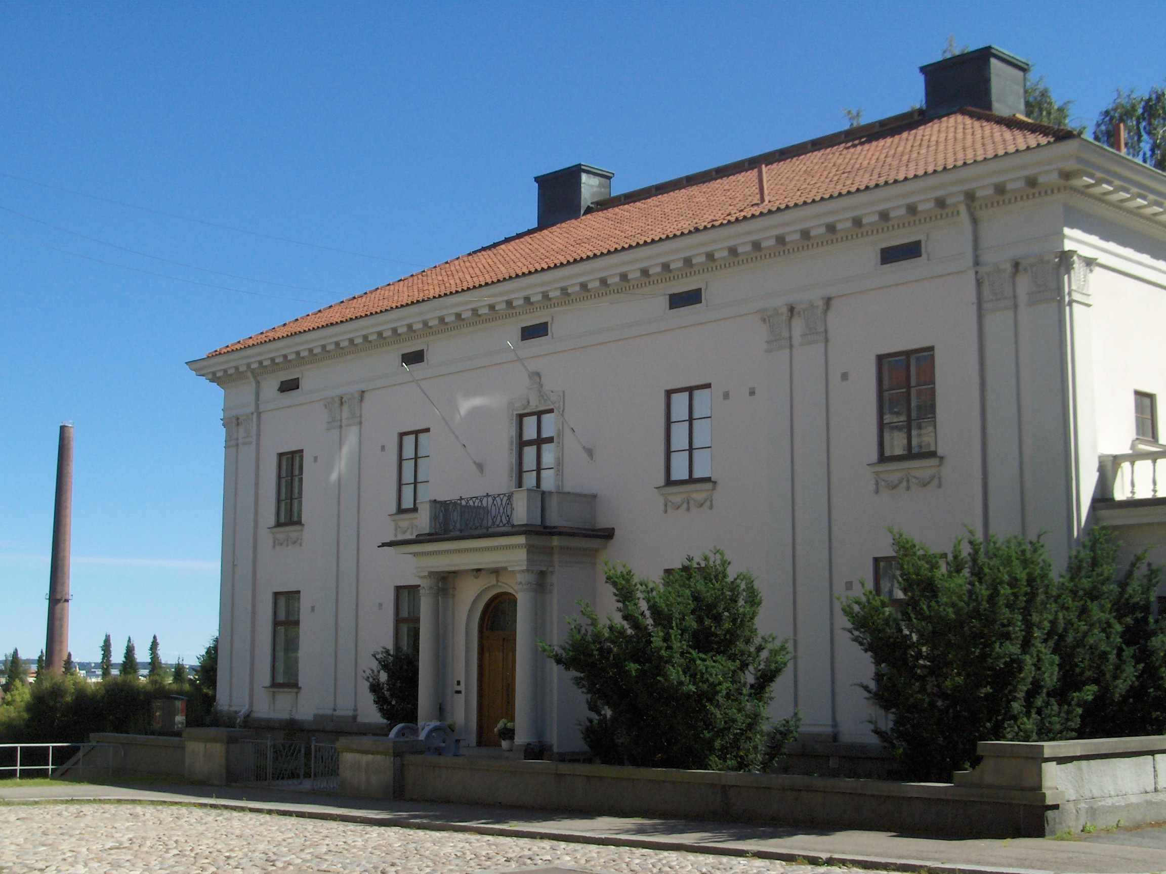 Emil Aaltonen museum in Tampere. The building that's also known as Pyynikinlinna was finished in 1924 and designed by architect Jarl Eklund.